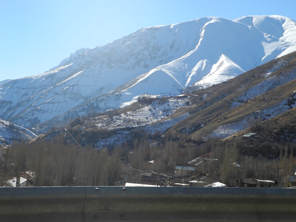 Royan - Mazandaran- Iran